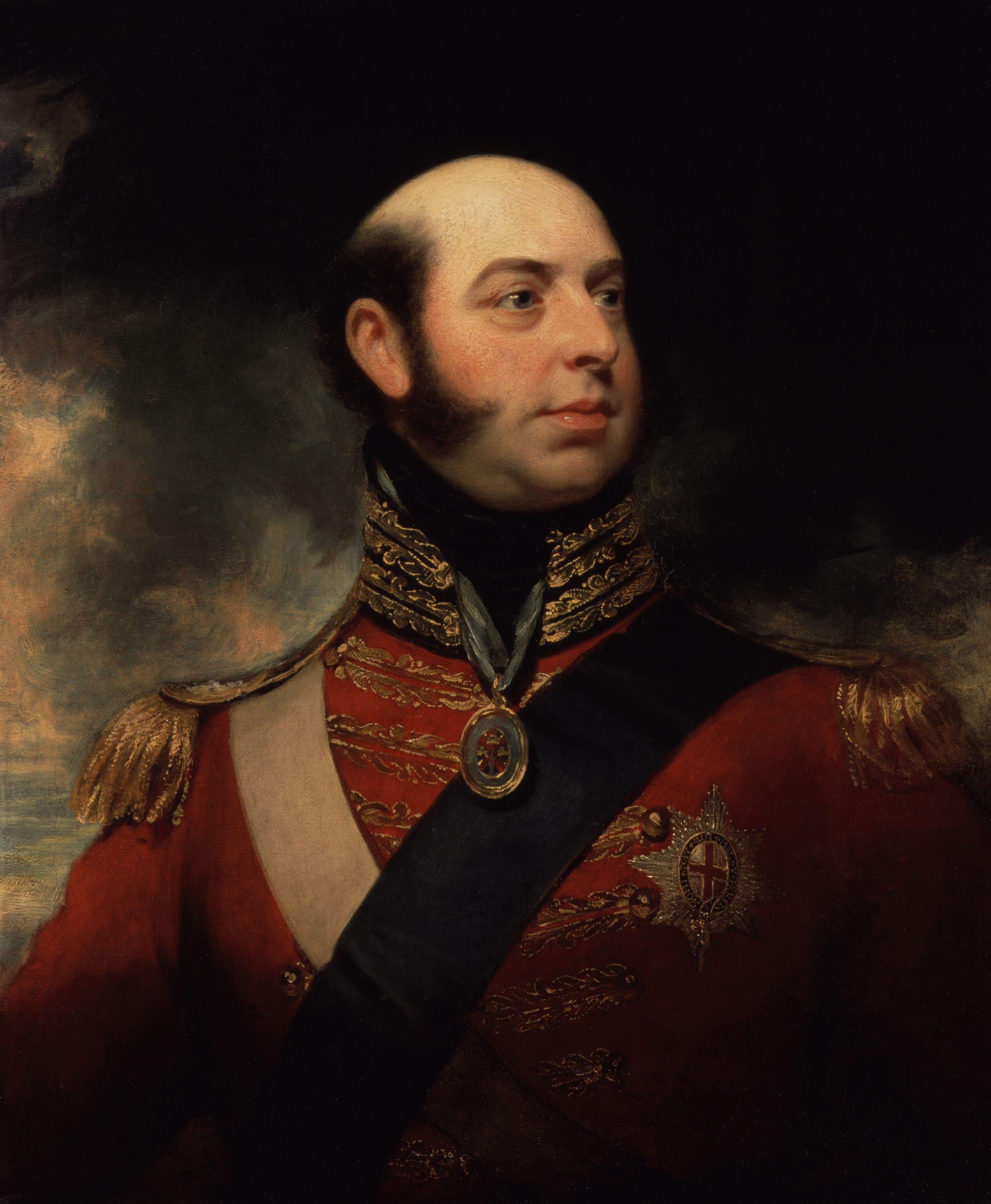 All images in this batch have been confirmed as author died before 1939 according to the official death date listed by the NPG.